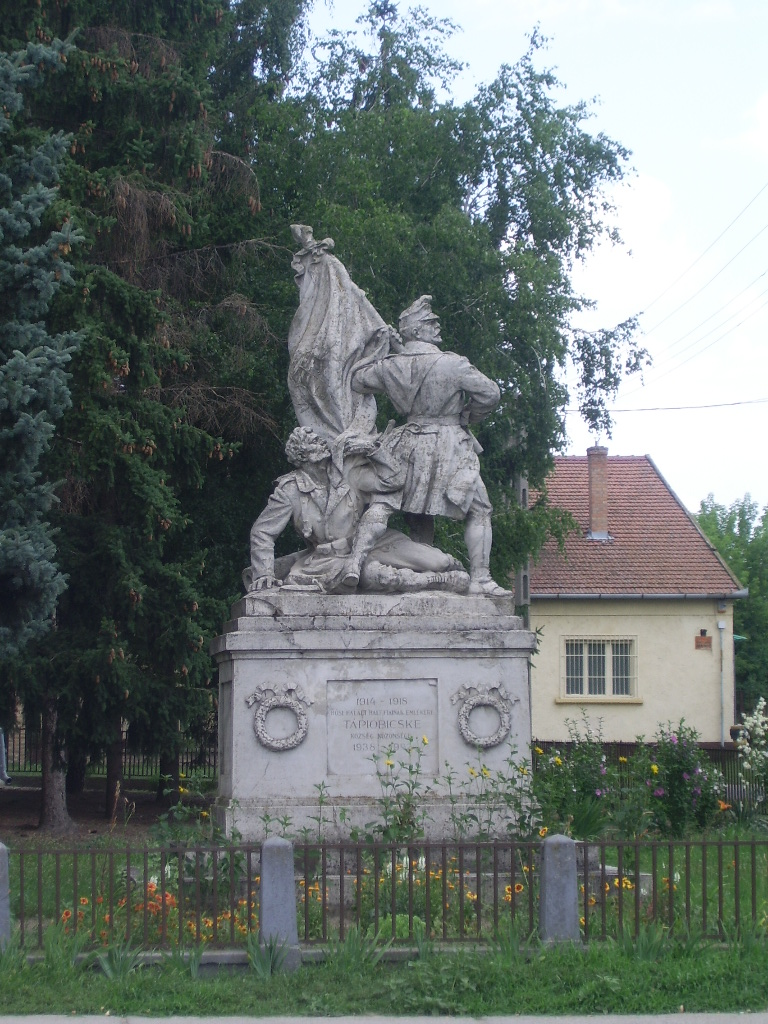 WWI memorial, Tápióbicske, Hungary